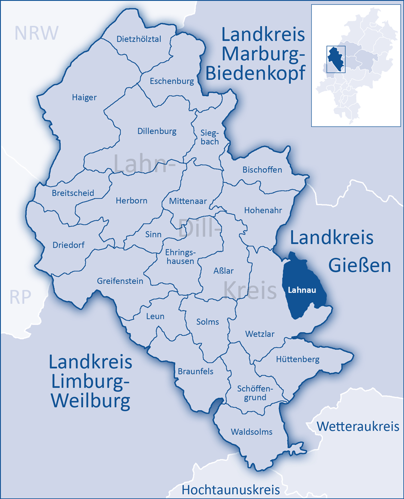 The map shows a district in the area of Lahn-Dill-Kreis